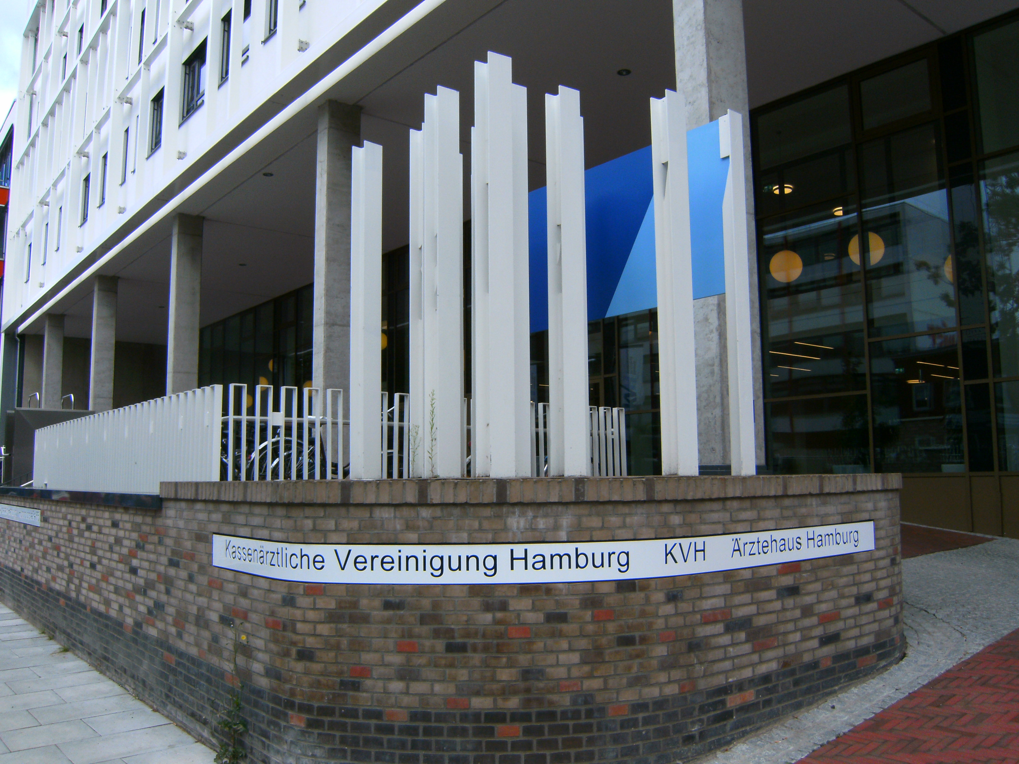 Hamburg, Germany, Humboldtstraße 56: New building of Kassenärztlichen Vereinigung Hamburg (physicians) of 2017. Sculpture by Frank Rosenzweig (* 1962).